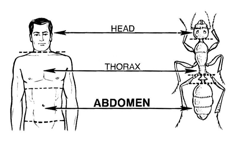 line art of abdomen